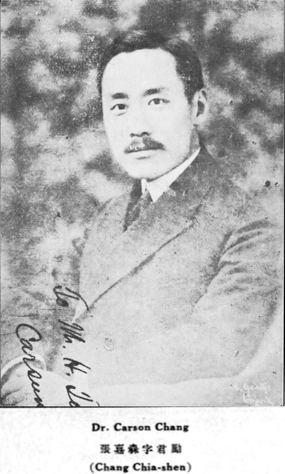 Zhang Junmai (Chang Chün-mai); Zhang Jiasen (Chang Chia-sen); Dr. Carson Chang (1887 - 1969)